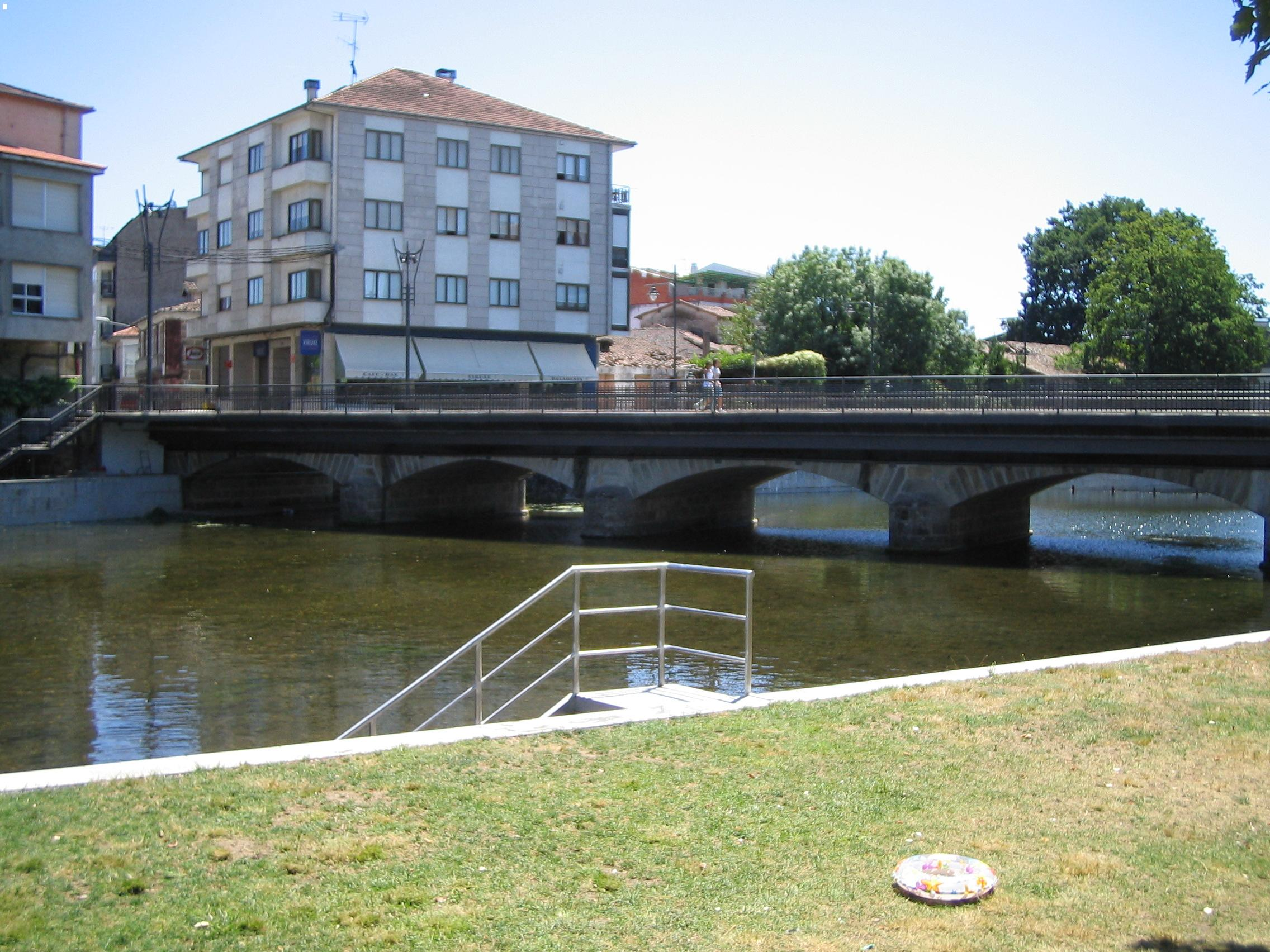 Town of Verín, in Spain